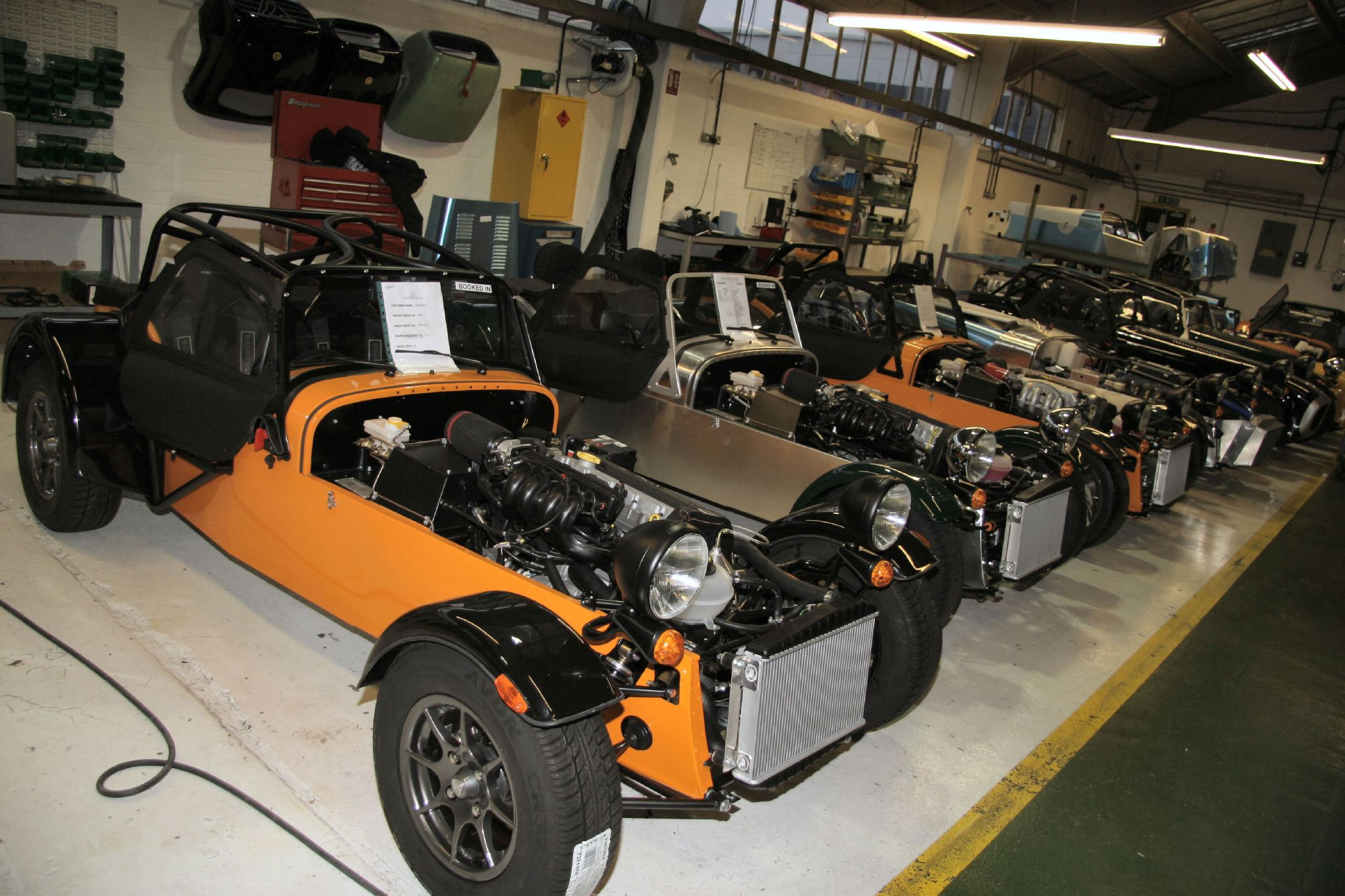 Caterham factory visit